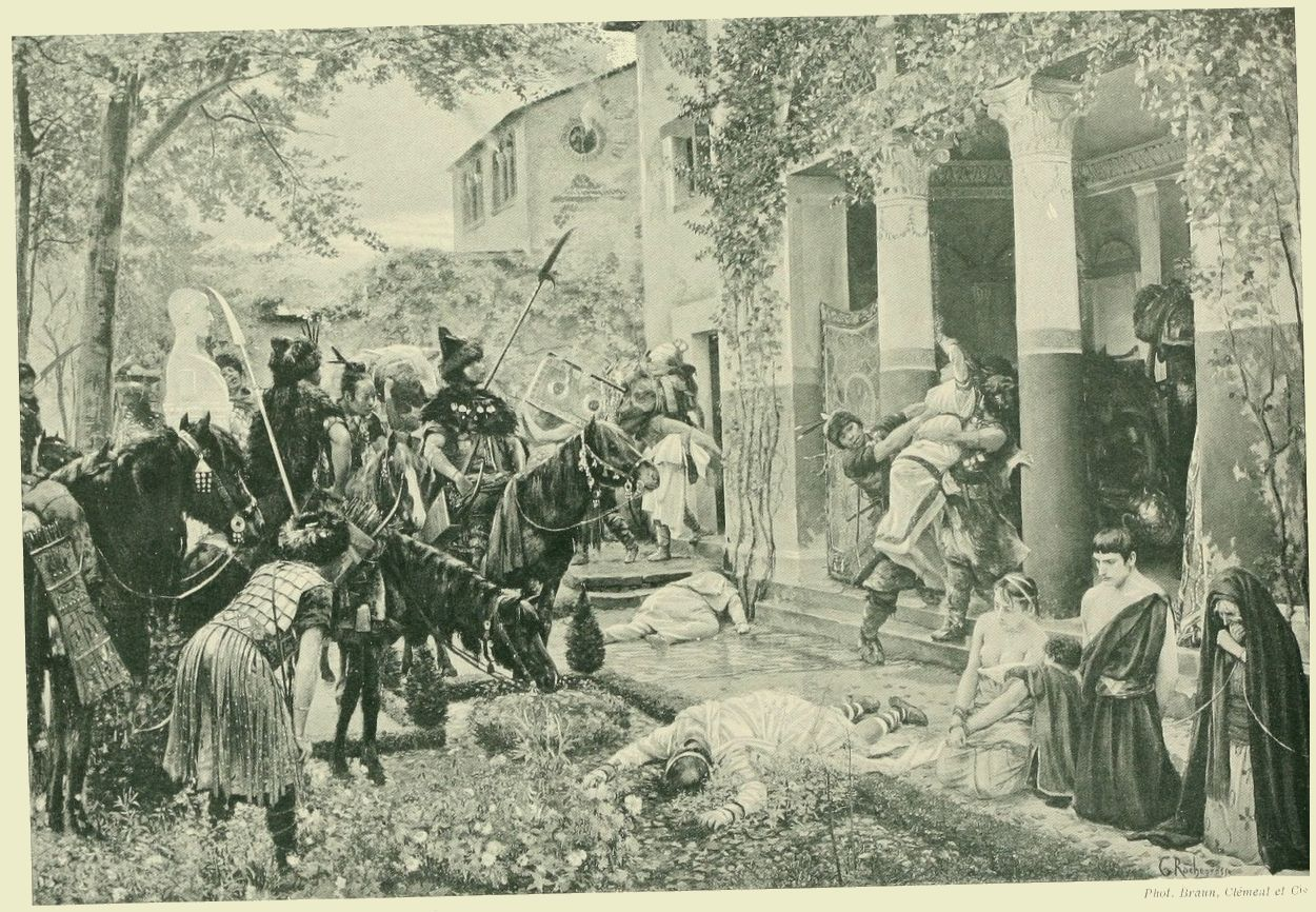 Roman villa in Gaul sacked by the hordes of Attila the Hun. Illustration from a book:Georges Rochegrosse, sa vie, son oeuvre [par J. Valmy-Baysse] Nombreuses reproductions ([1910])